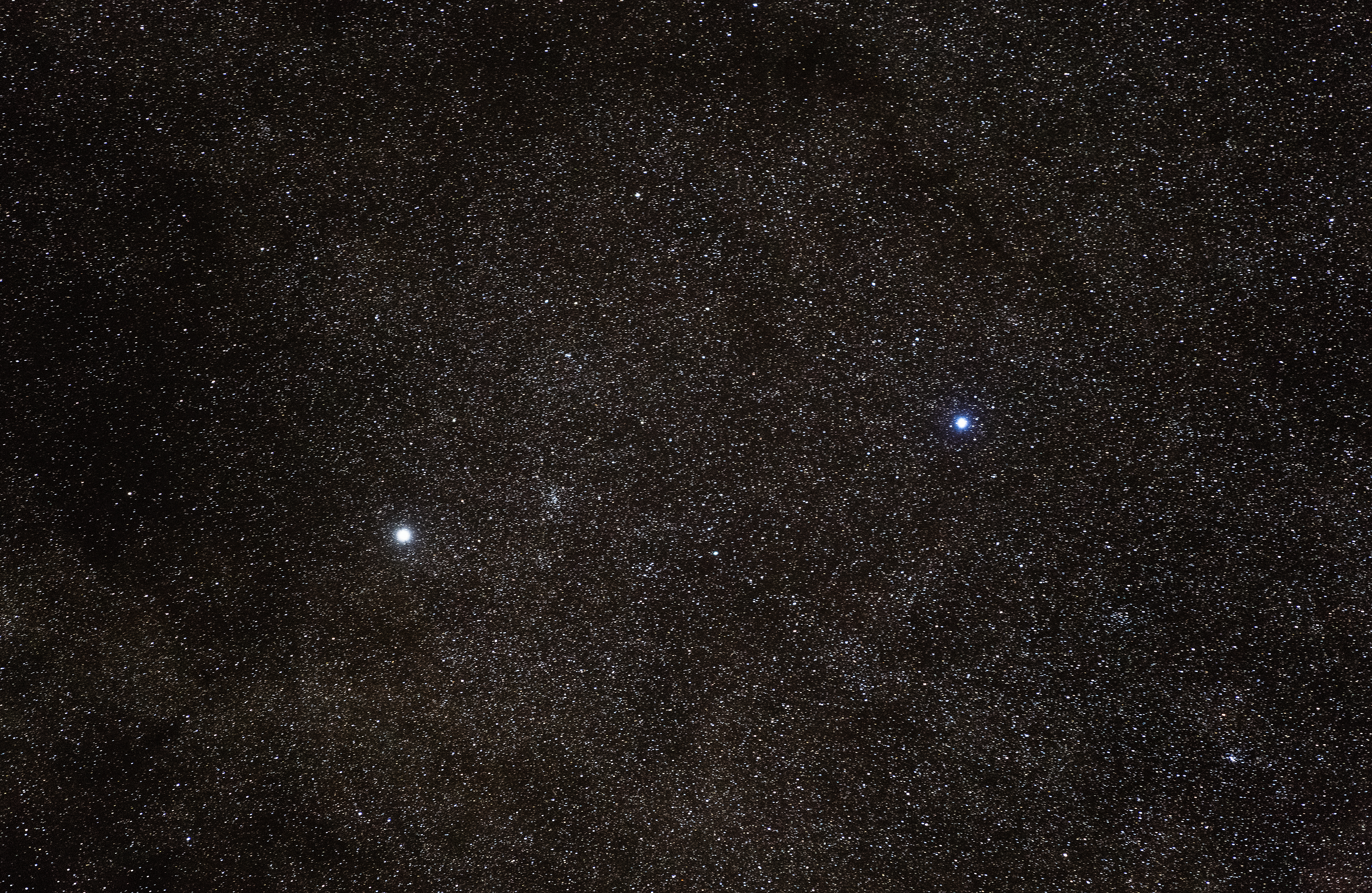 Alpha Centauri from Paranal